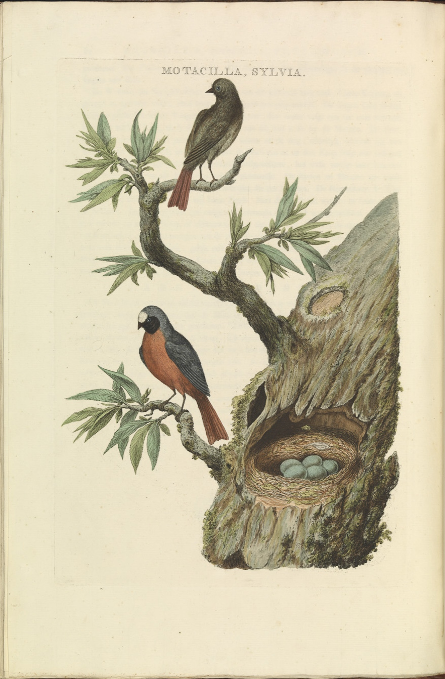 Plate 46 from the Nederlandsche vogelen by Nozeman and Sepp.